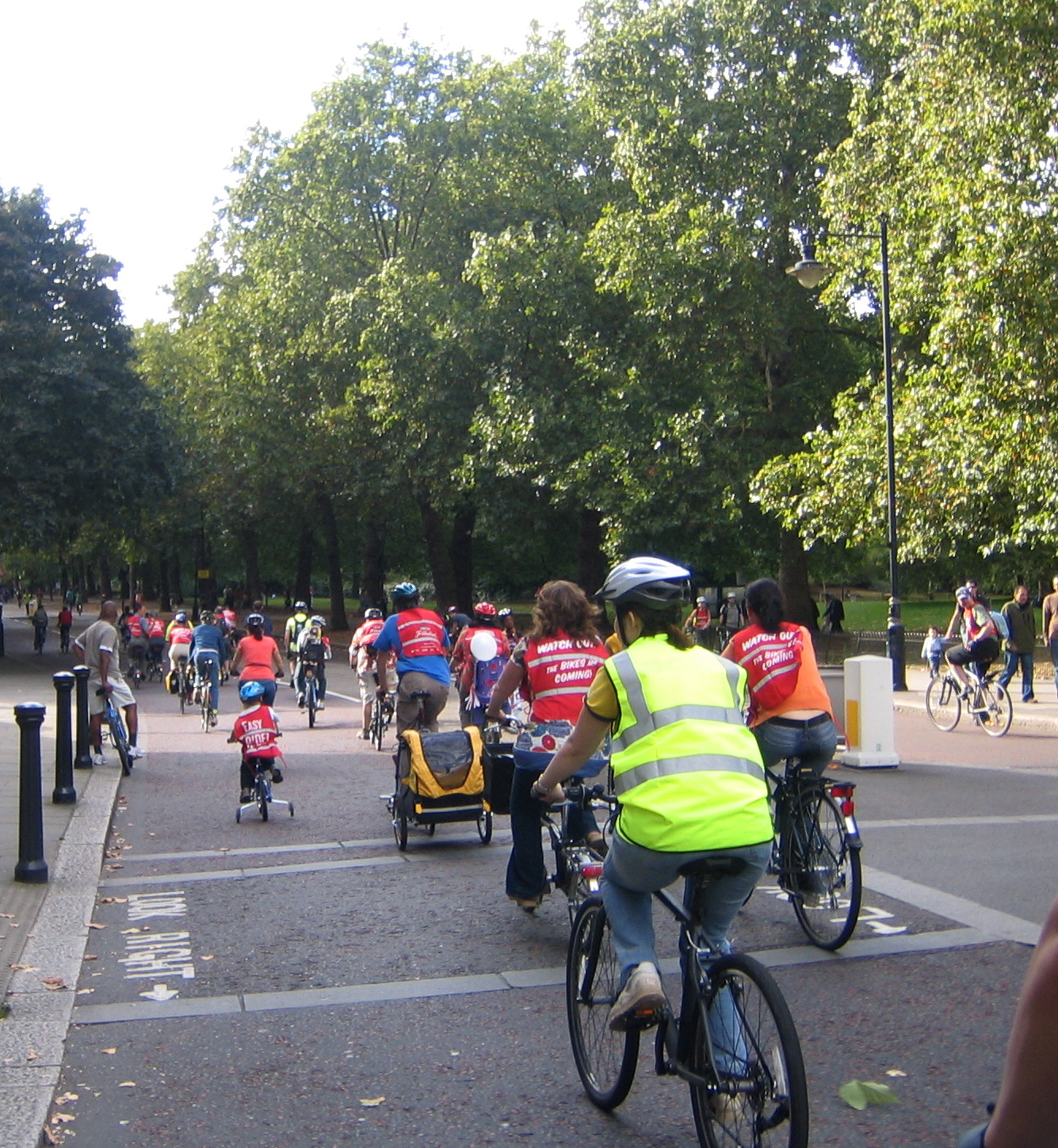 Hovis London Freewheel ride passing St James' Park